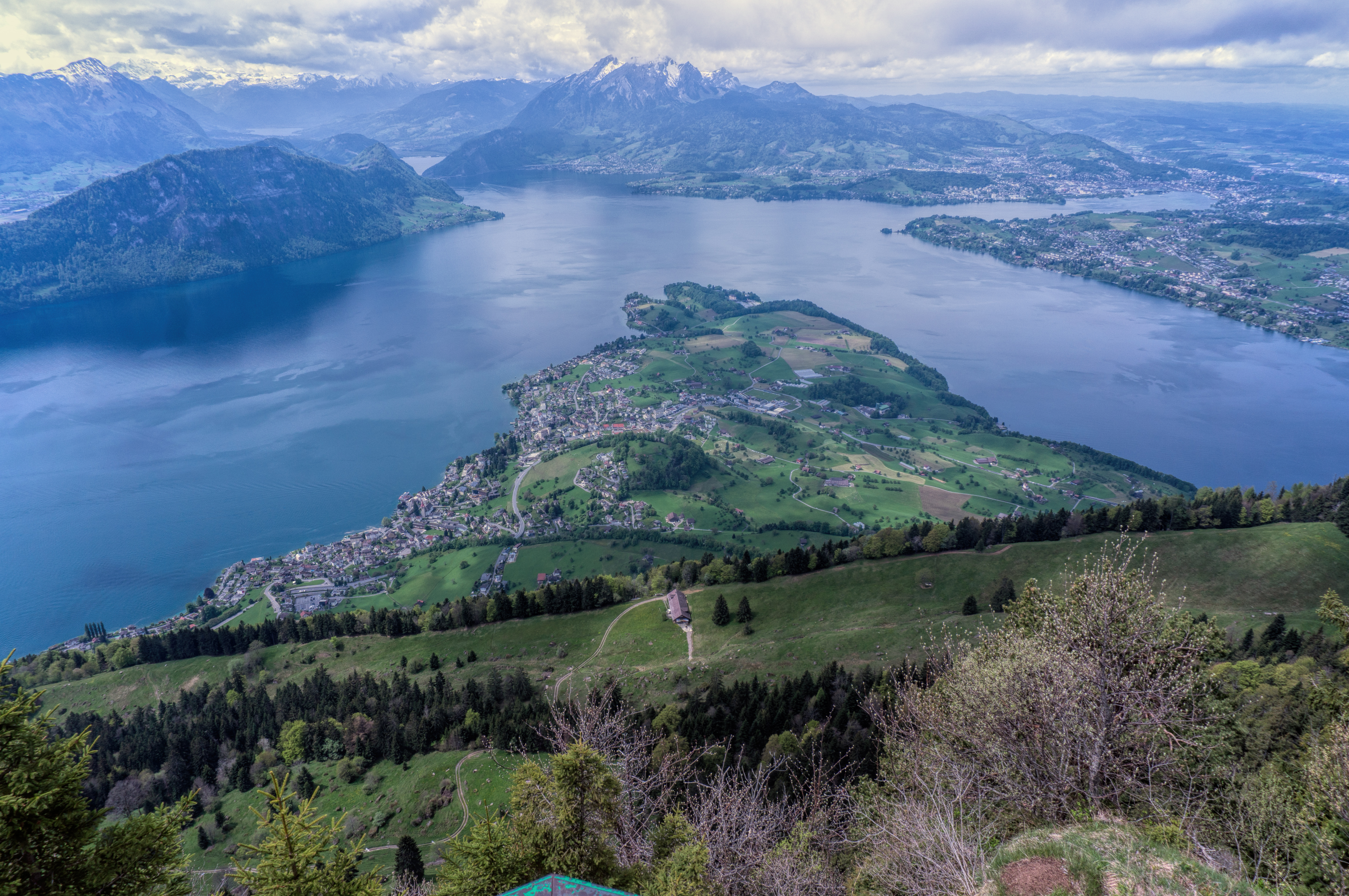 Lake Lucerne seen from Mt. Rigi